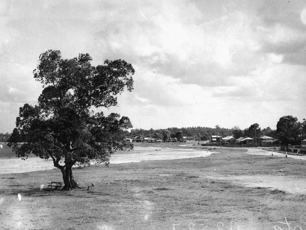 Brisbane suburb of Lota, near the foreshore, ca. 1935. A cluster of houses is tucked back from the beach on the other side of the Esplanade. A park bench on the left of the photograph is under an established shade tree.